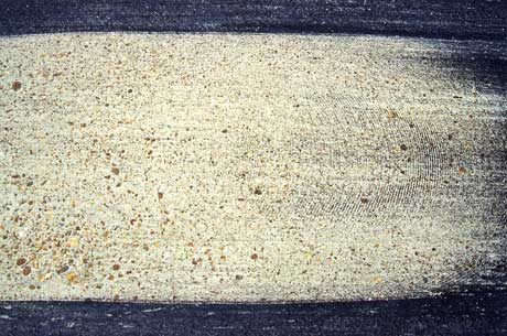 Rubber removal side-by-side comparison